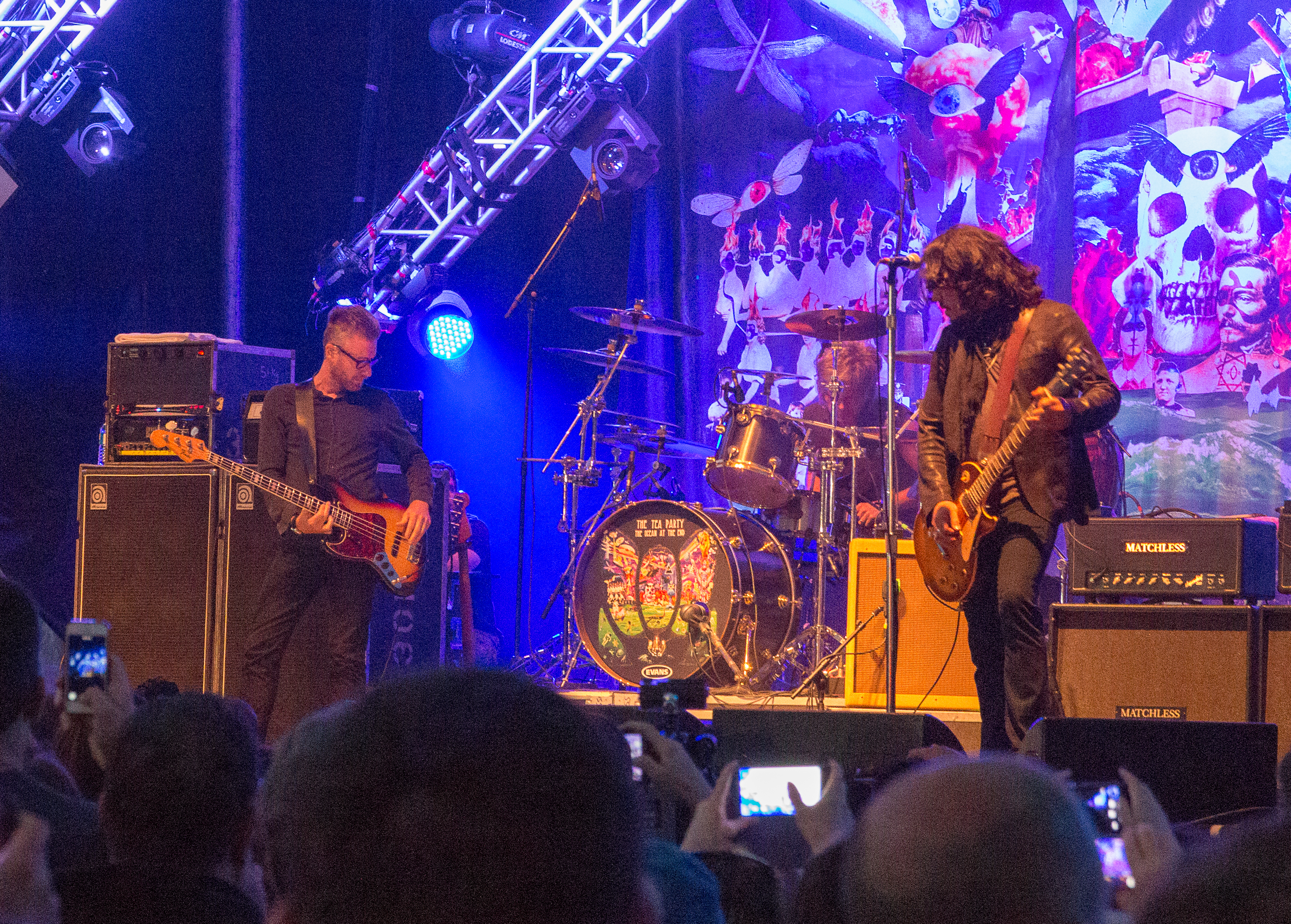 The Tea Party performing at the Sound of Music Festival in Burlington, ON. From left to right: Stuart Chatwood, Jeff Burrows and Jeff Martin